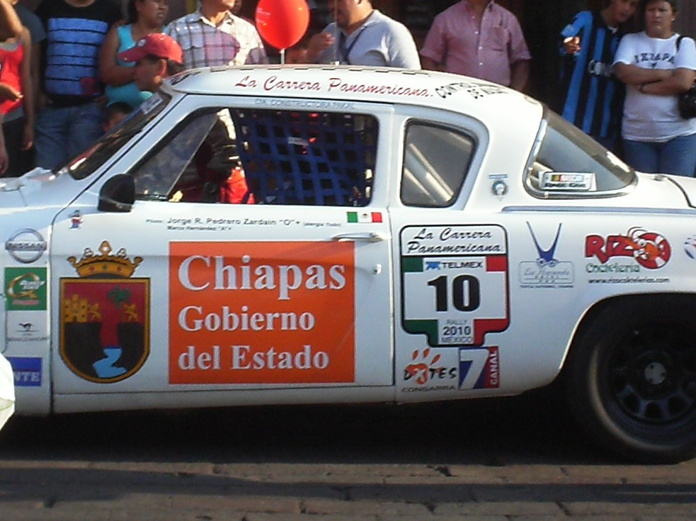 Jorge Pedrero in the Carrera Panamericana 2010